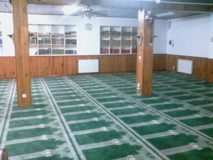 Mosquée Salam Mulhouse